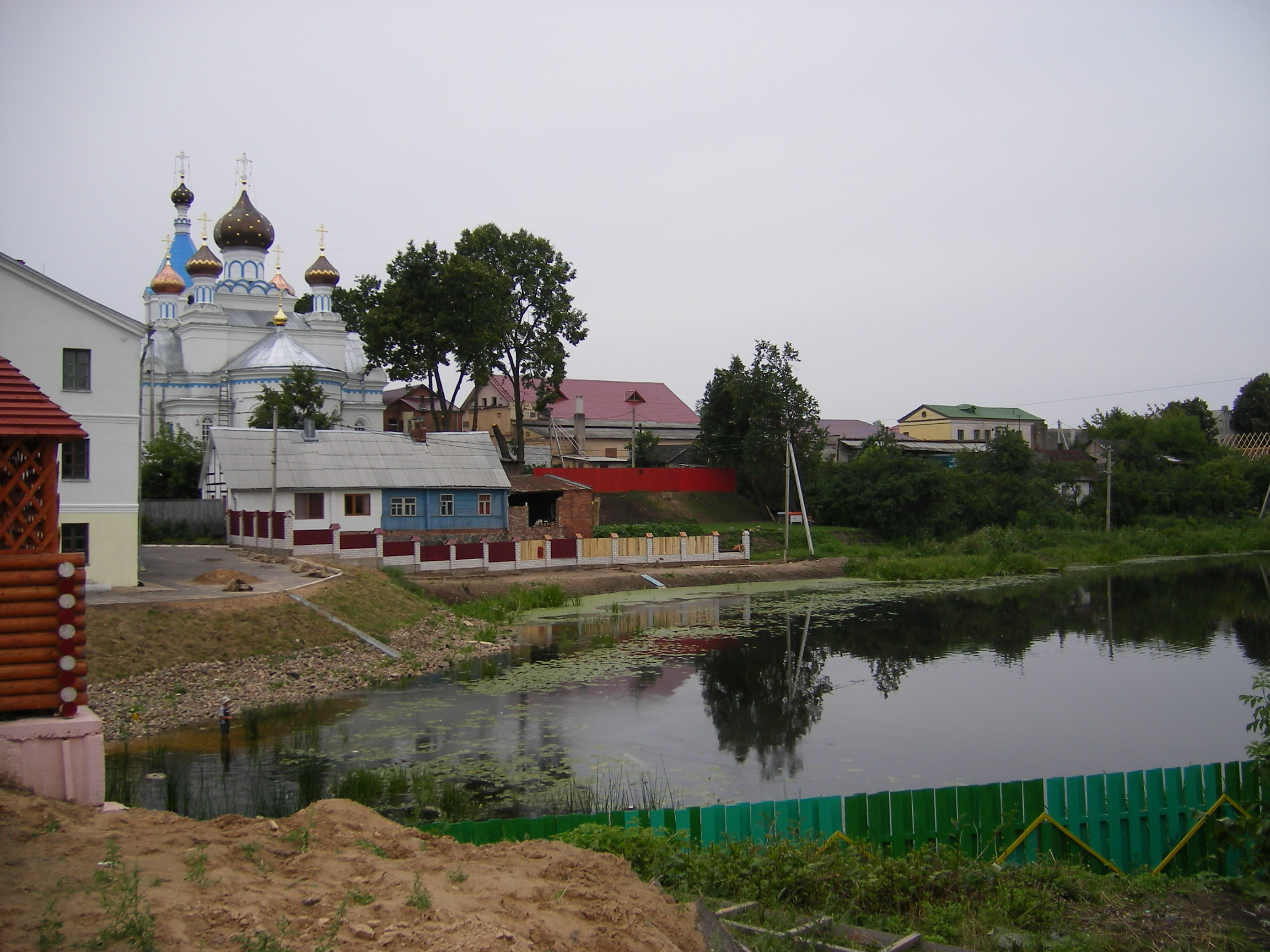 Pastavy, Saint Nicholas church.